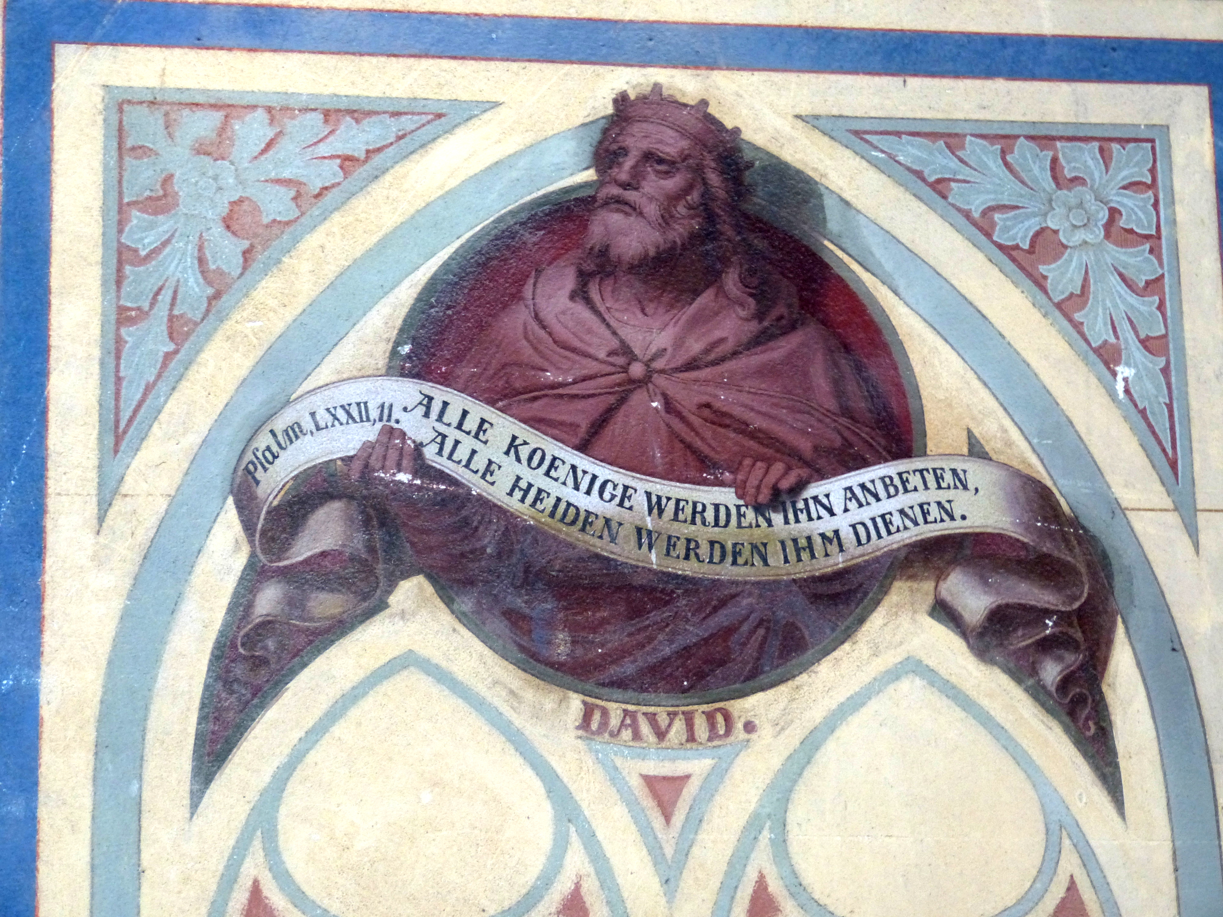 Barth ( Western Pomerania ). Saint Mary church: Fresco ( 1860 ) by Carl Gottfried Pfannschmidt showing king David with quotation of Psalm 72:11: "May all kings bow down to him and all nations serve him."